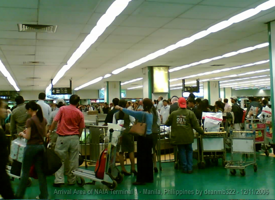 Arrival area of Terminal 1 of the Ninoy Aquino International Airport, during the Christmas holidays.